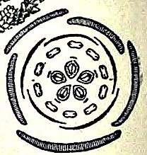 From Encyclopædia Britannica (11th ed.), v. 24, 1911, p. 580.